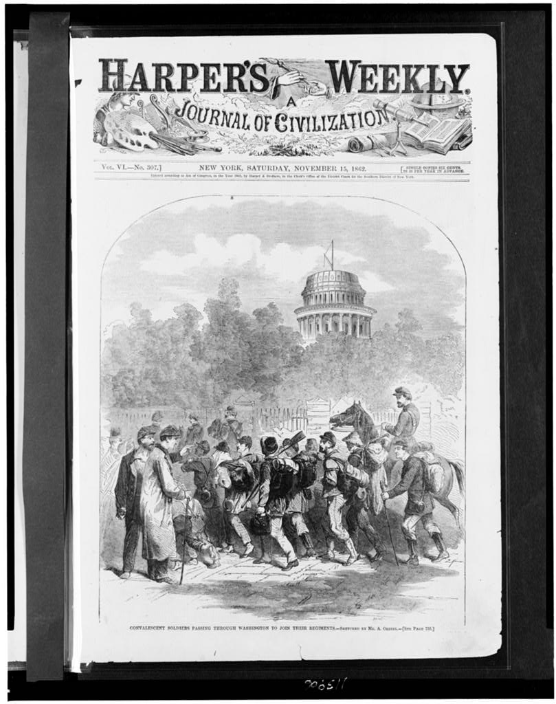 Title: Convalescent soldiers passing through Washington to join their regiments / sketched by Mr. A. Oertel. Abstract/medium: 1 print : wood engraving.